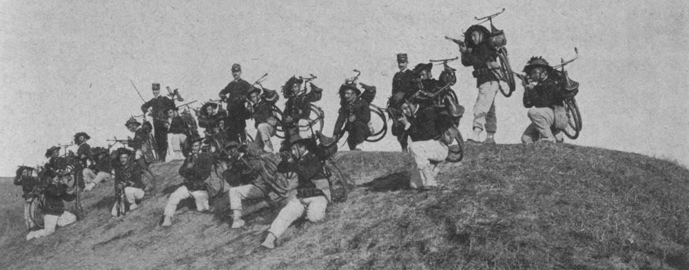 Bicycle Bersaglieri near Rome in 1902.